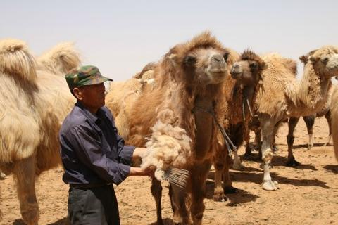 a Bactrian Camel having its hair sheered and used for clothing.